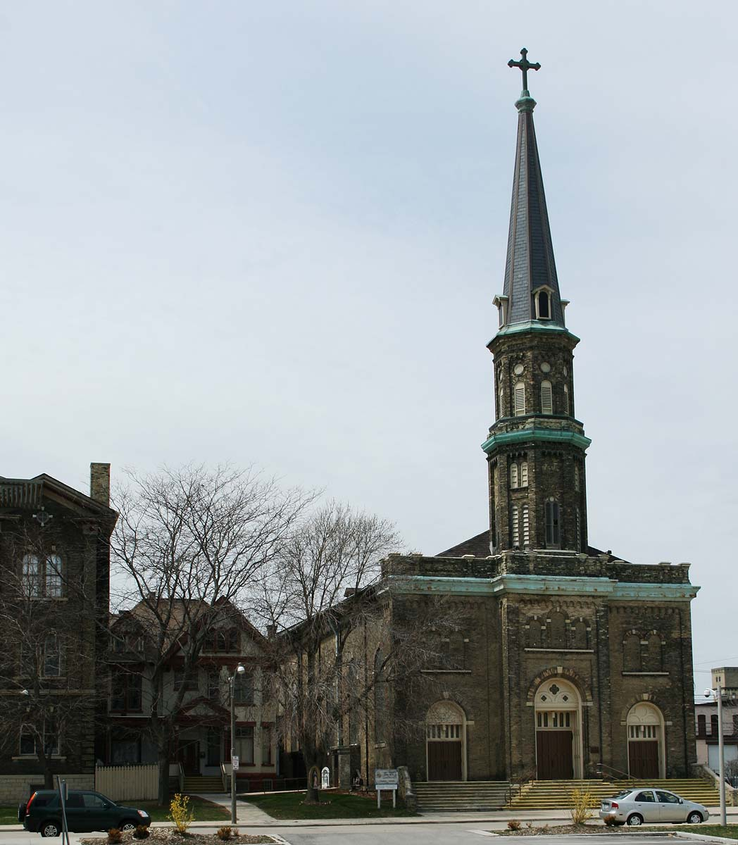 Holy Trinity-Our Lady of Guadalupe Catholic Church, Walker's Point neighborhood of Milwaukee Wisconsin. On the National Register of Historic Places as the Holy Trinity Roman Catholic Church.